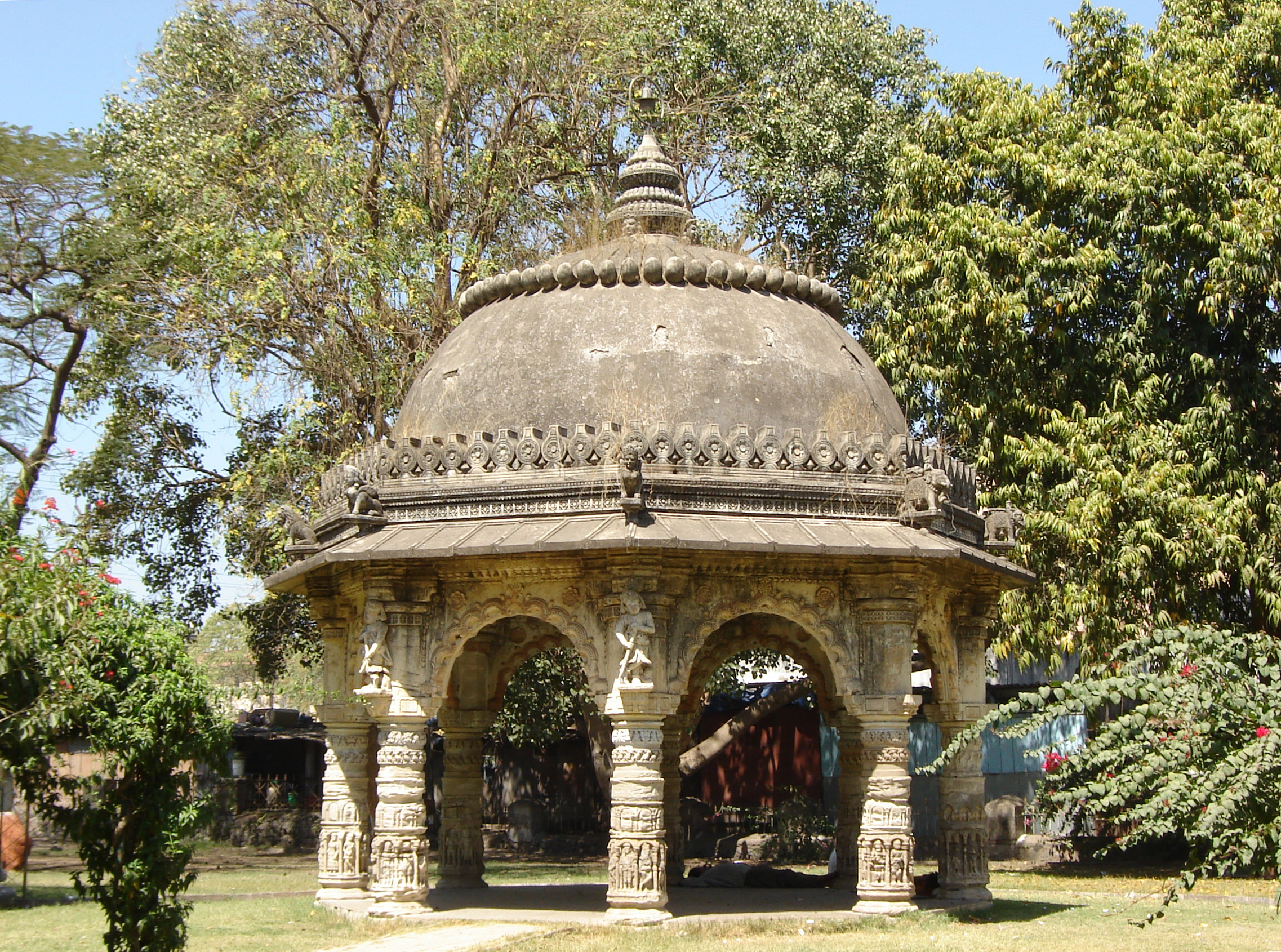 Bandstand in the Queen Victoria memorial institute buildings located in Jubilee Garden, Rajkot.